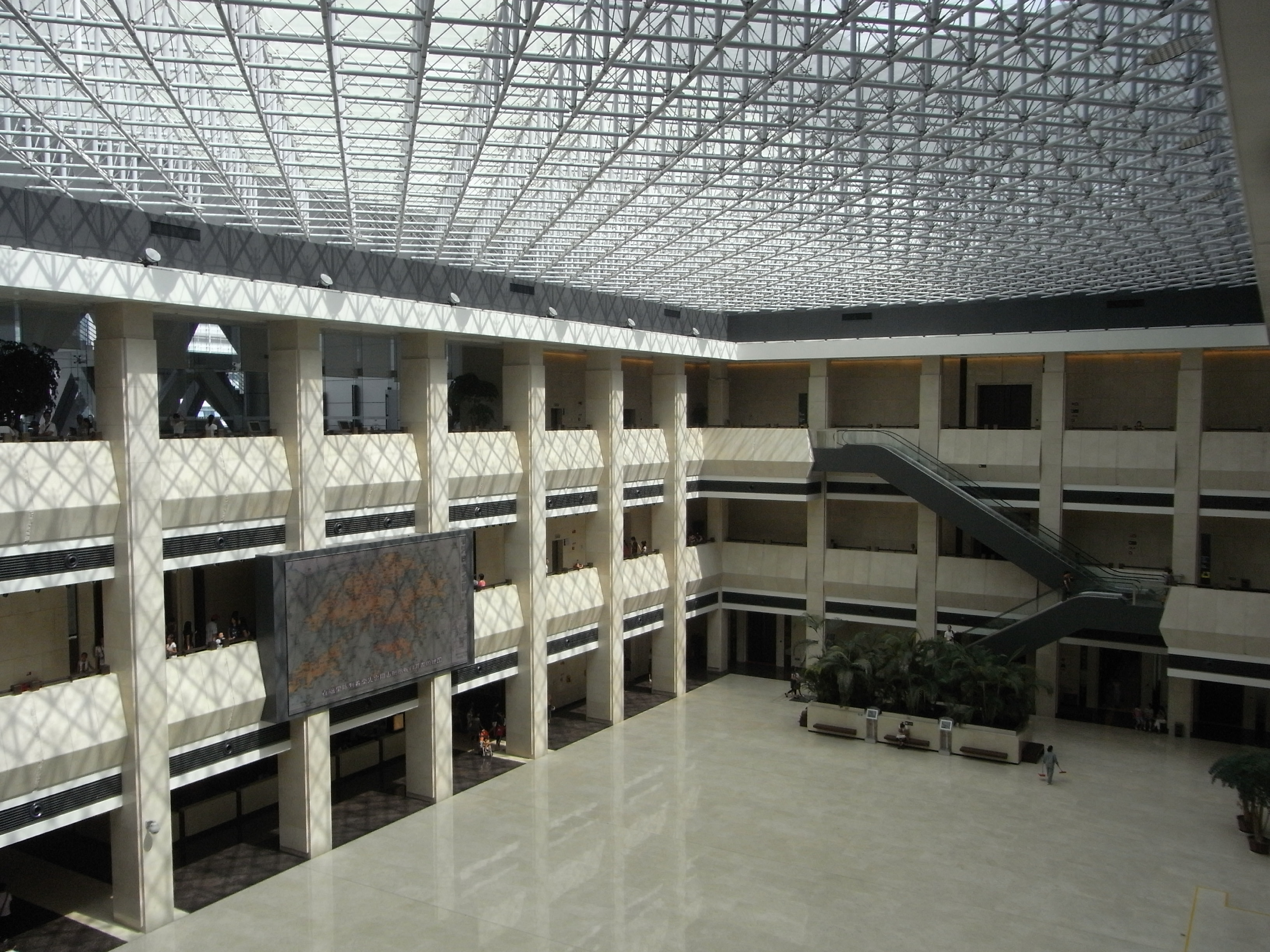 福田區 深圳博物館